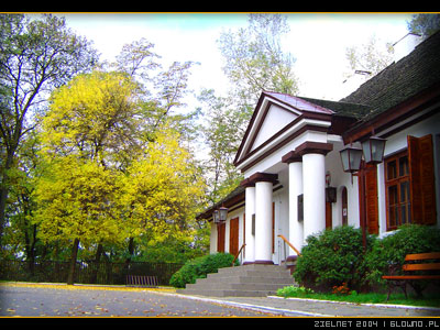 Residence of Jabłoński family in Głowno